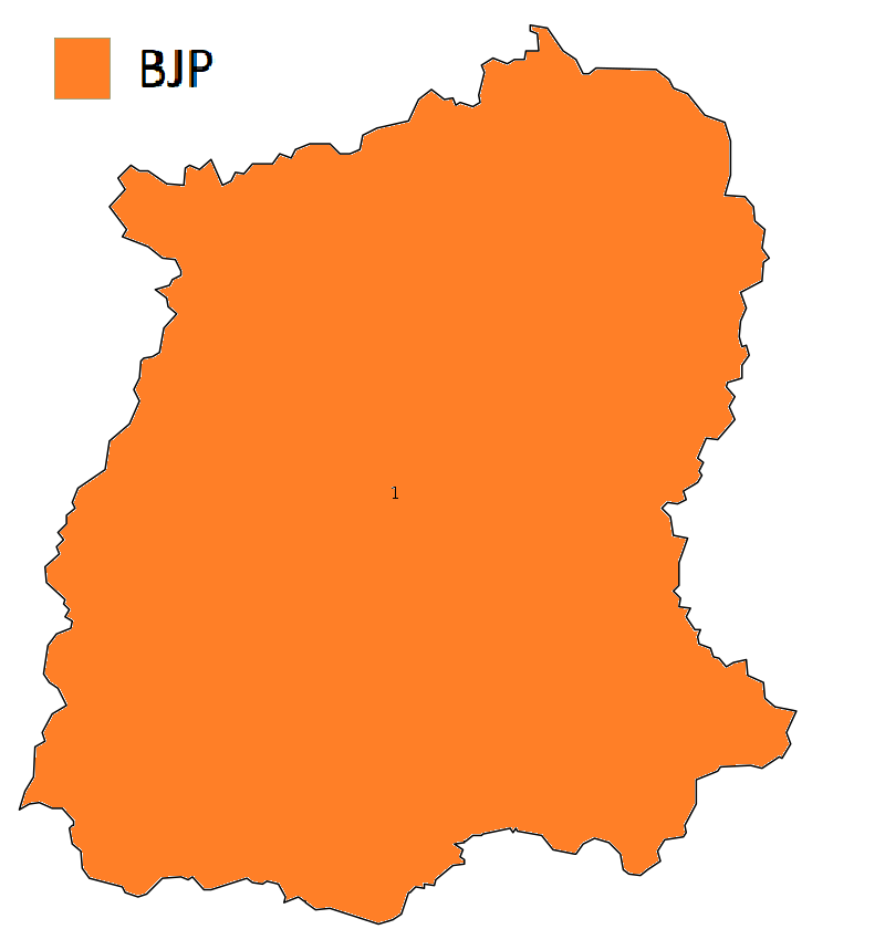 Seat Sharing of NDA in Sikkim in General Election, 2019